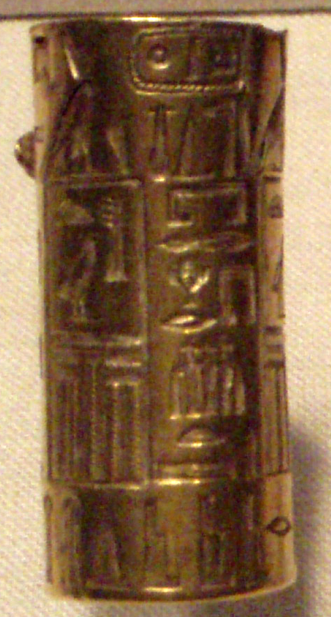 A gold cylander seal bearing the names and titles of the pharaoh Djedkare Isesi. From the 5th dynasty, reign of Djedkare Isesi, circa 2381-2353 B.C. Now at the Museum of Fine Arts, Boston. Museum catalog number: 68.115.